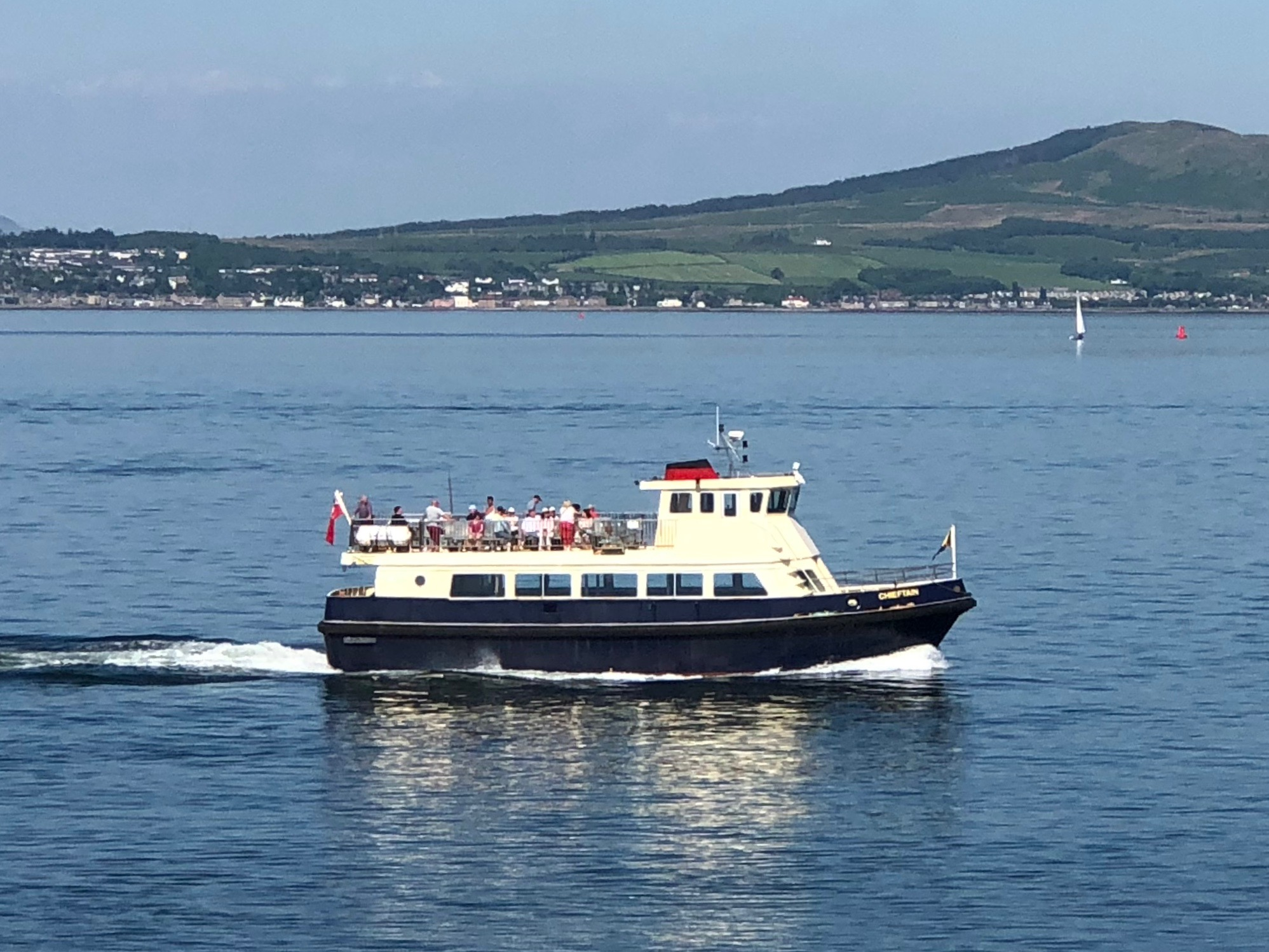 The former MV Seabus, renamed MV Chieftain', back on the Kilcreggam ferry service – seen from Gourock pier, looking towards Helensburgh